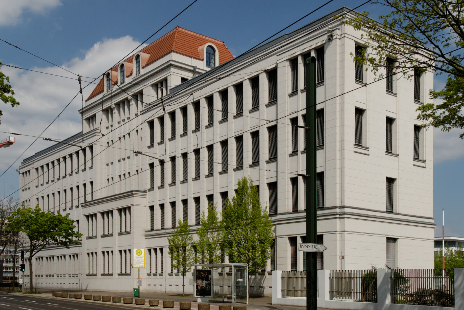 Rheinmetall administration building, Rheinmetall-Allee 1, former Ulmenstraße 125 in Düsseldorf-Derendorf, Germany This is a photograph of an architectural monument.